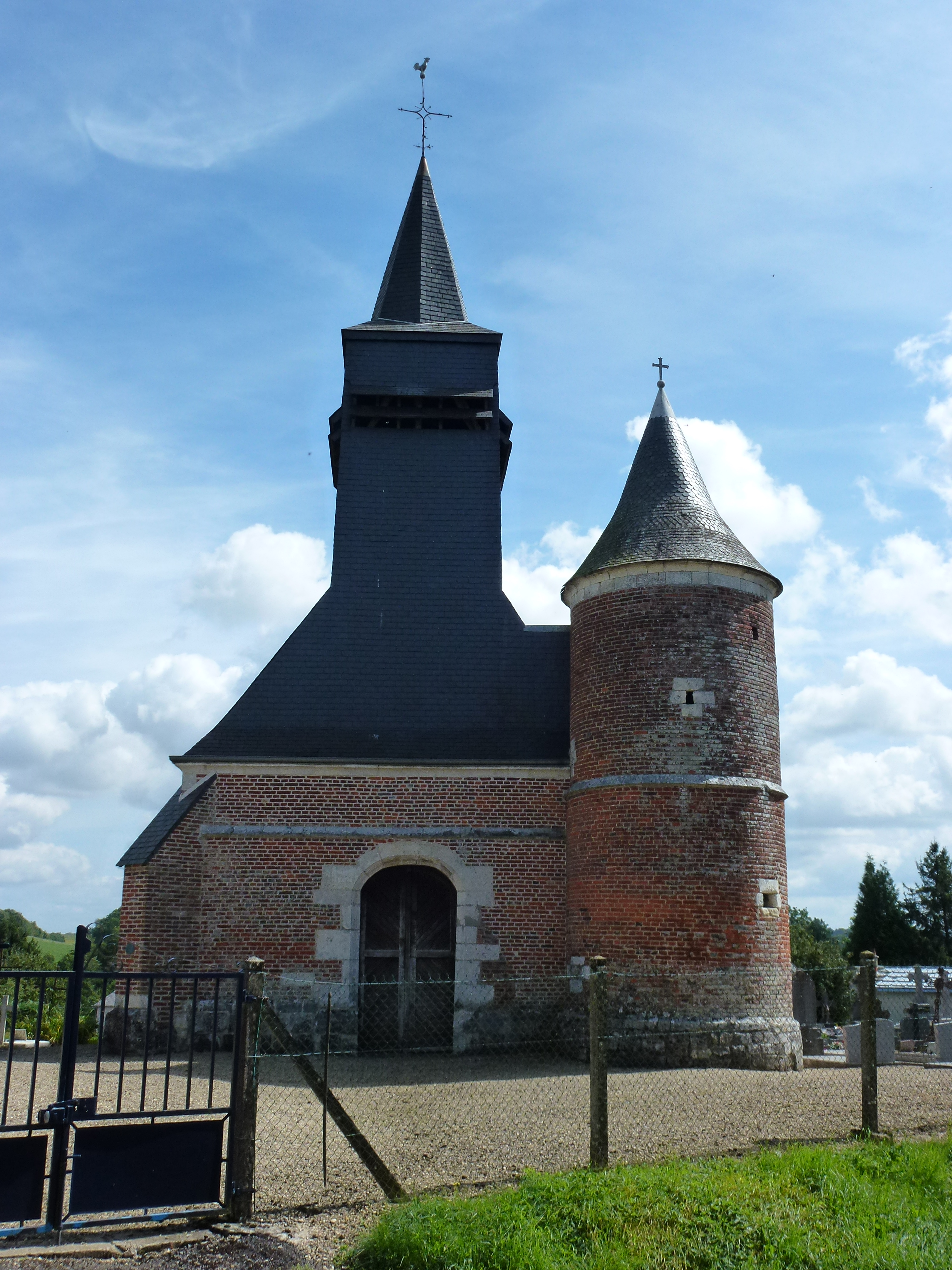 Logny-lès-Aubenton (Aisne) église Saint-Rémi, façade